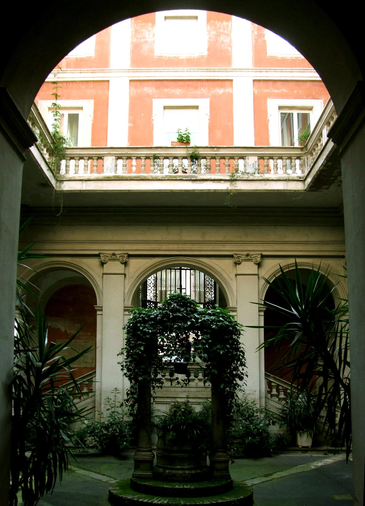 Roma, Sant'Agata dei Goti (rione Monti), Atrium